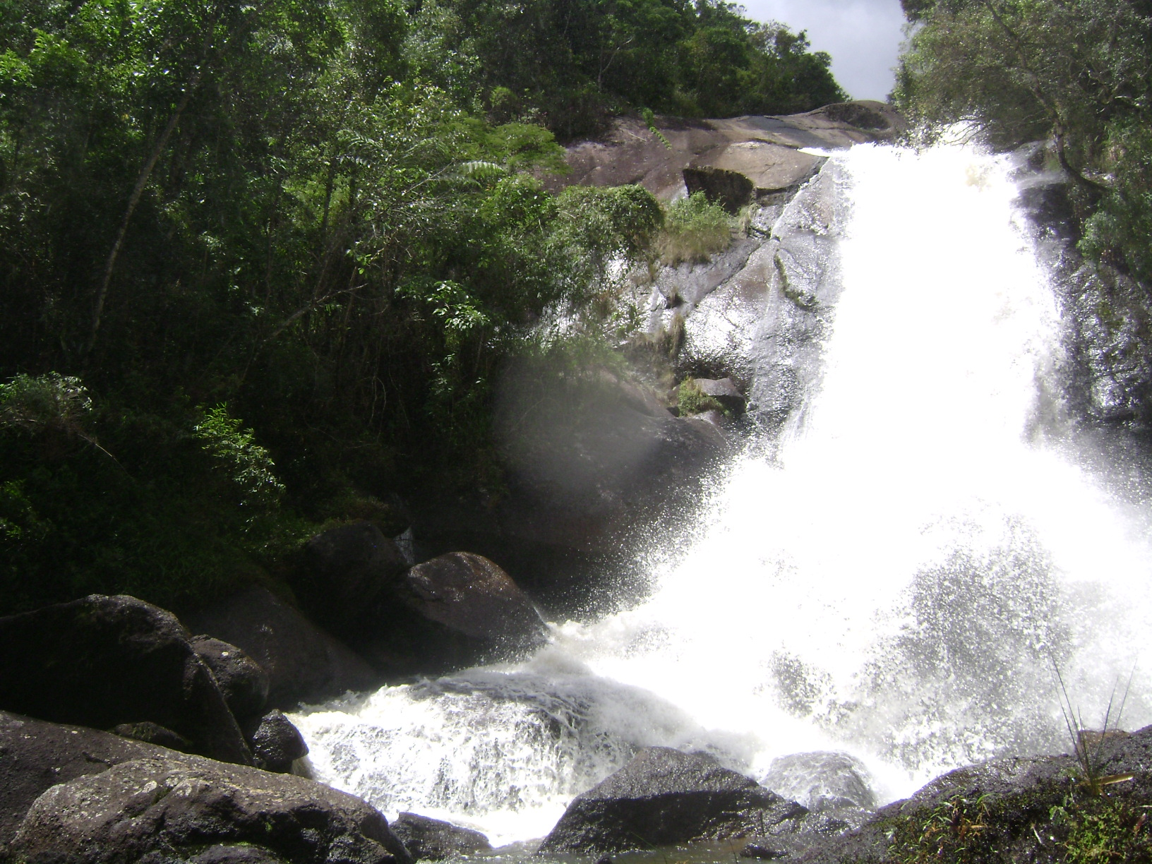 Picture of Iponina's Waterfall